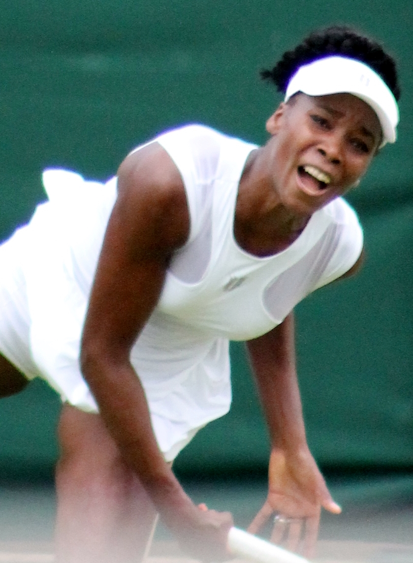 Williams V. WM14